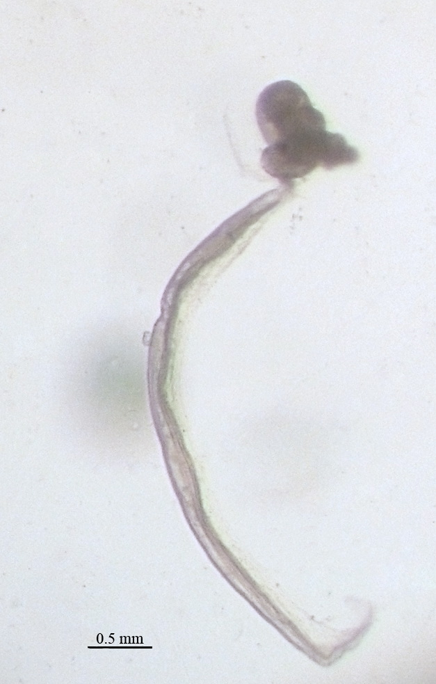 Hydrofront of Dnieper-Bug Liman